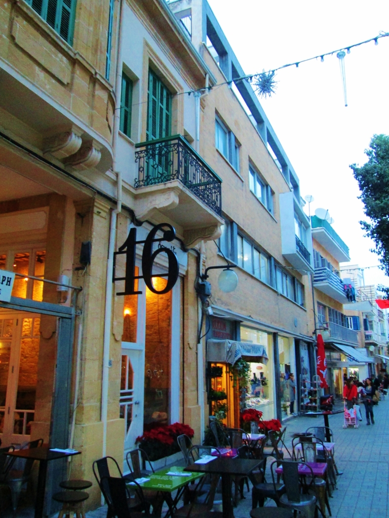 Onasagorou street with classic cafes during afternoon Nicosia Republic of Cyprus